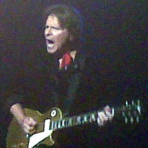 John Fogerty at Sydney Entertainment Centre